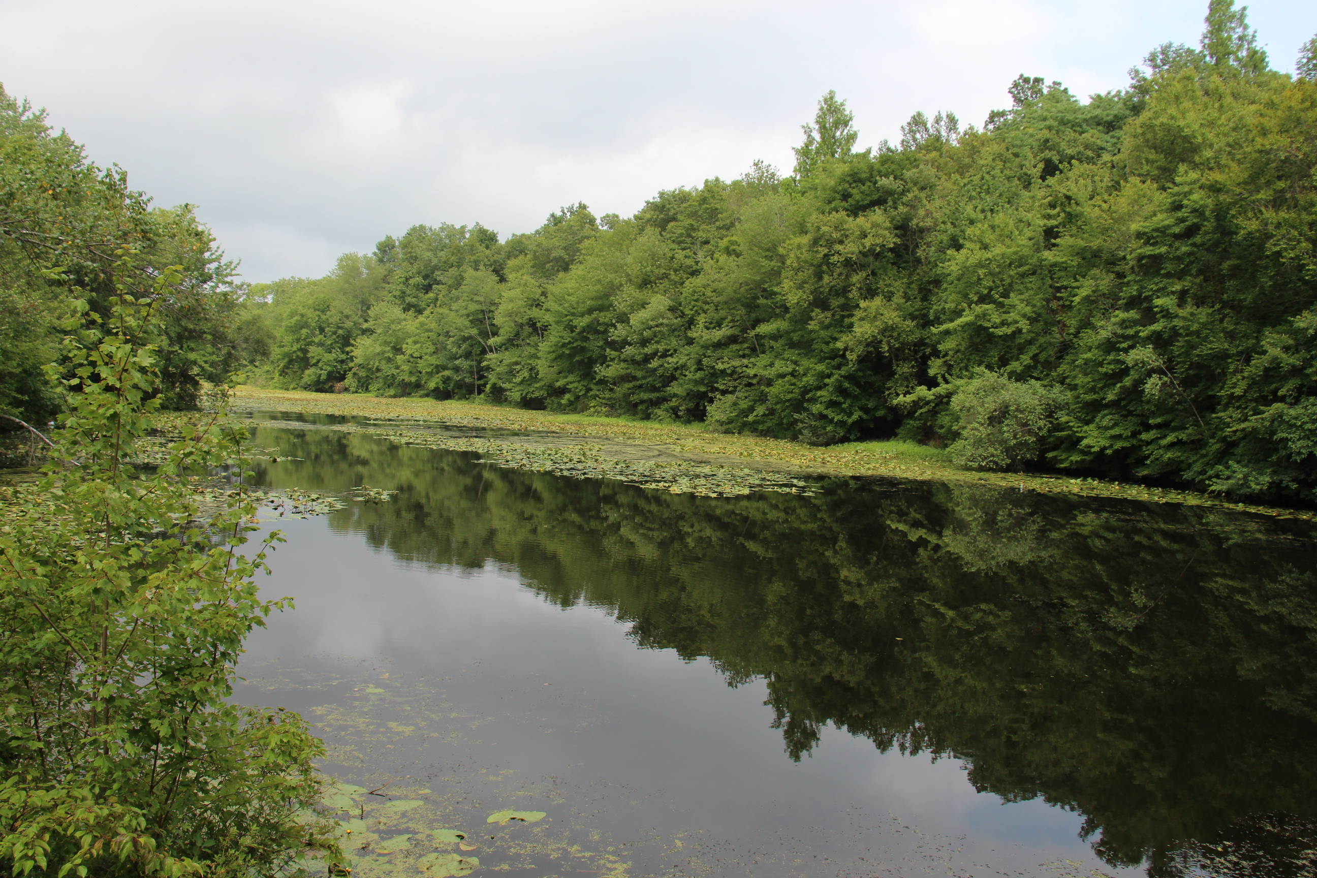 Entrance at 56 Deer Run Road, Wilton, CT